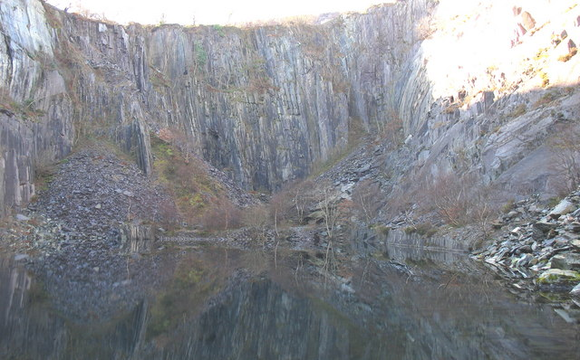 The west wall of the upper pit of Lower Glynrhonwy Quarry The rubbish screes block off the tunnels linking Lower and Upper Glynrhonwy Quarries. The Clegyr road runs along the narrow causeway between the two quarries. 320541